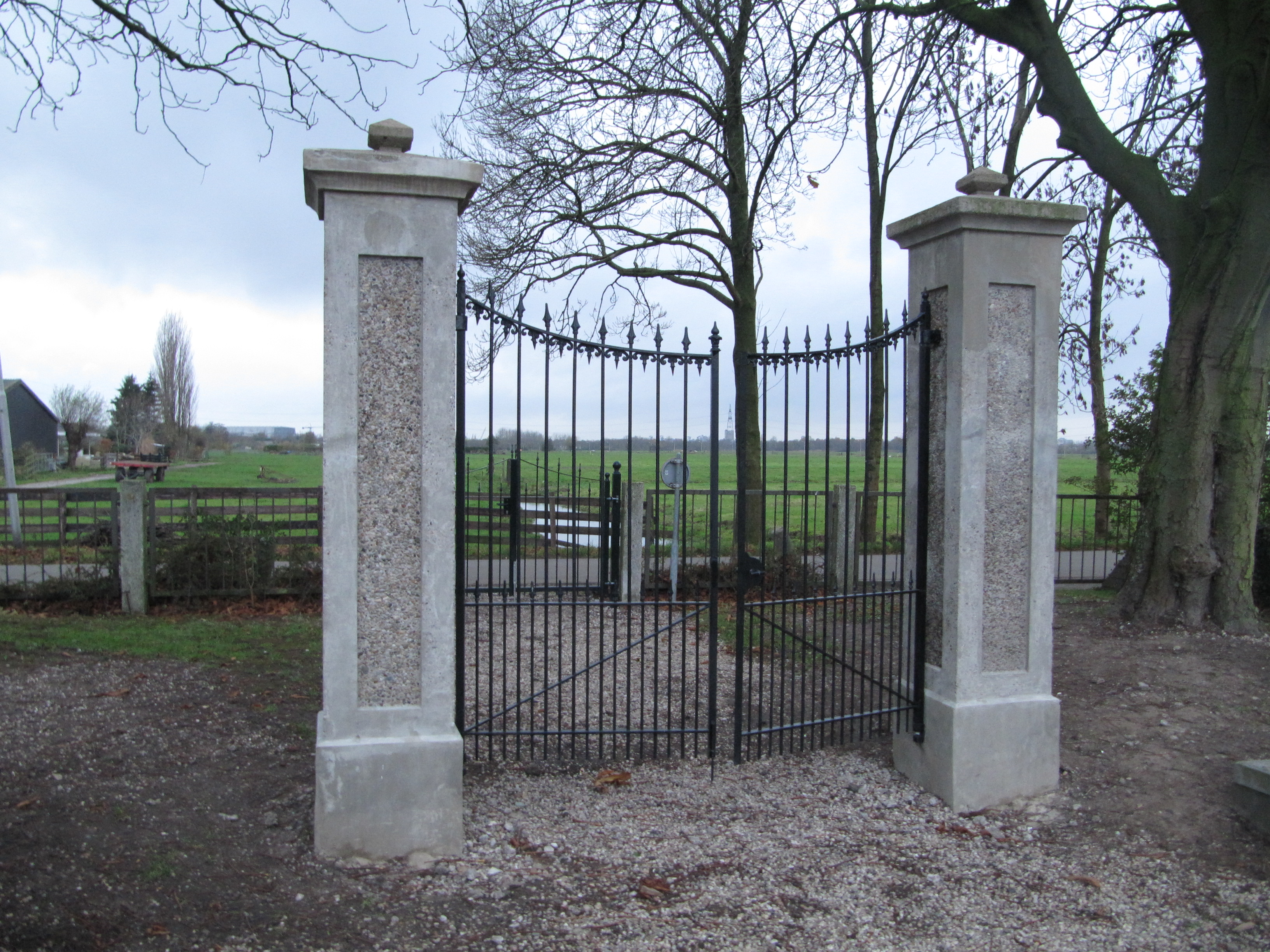 17″ N, 4° 36′ 56.48″ E